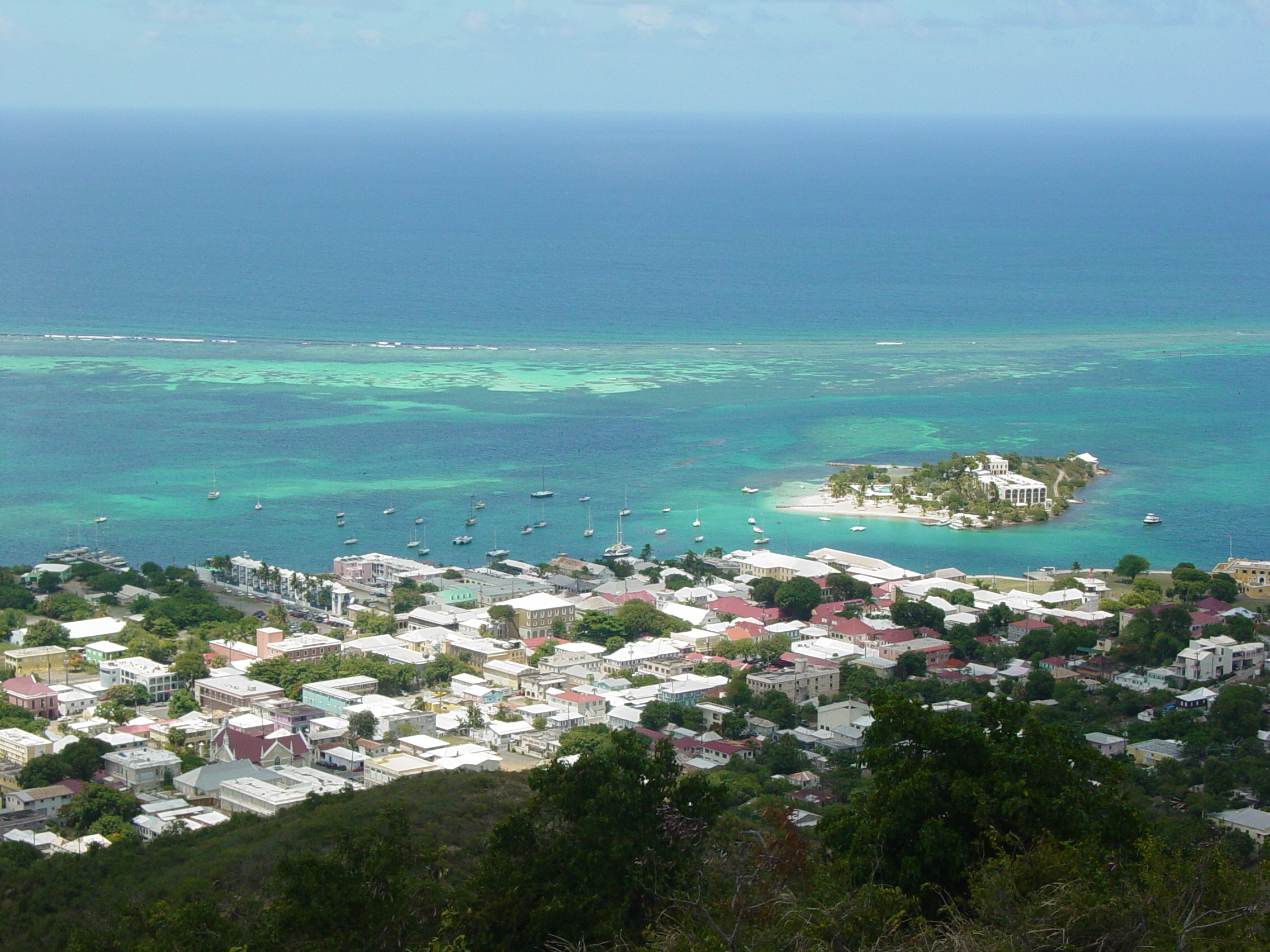 Christiansted, St. Croix, US Virgin Islands. Facing north. Photo taken on the slopes of Recovery Hill.